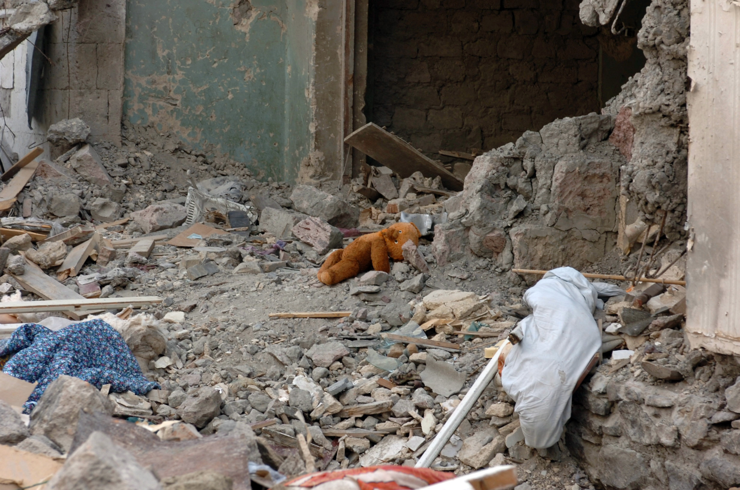 GORI, Georgia (Aug. 25, 2008) A teddy bear lies amidst rubble in Gori after the recent conflict between Georgia and Russia. Members of U.S. European Command's Joint Assessment Team were accompanied by officials from the government of the Republic of Georgia, and toured the embattled city to assess the level of damage, the status of relief efforts, and the return of displaced persons. The Department of Defense deployment is part of a larger United States response to the government of Georgia request for humanitarian assistance. U.S. Department of State and U.S. Agency for International Development is coordinating the efforts. (U.S. Navy photo by Lt. Jim Hoeft/Released)